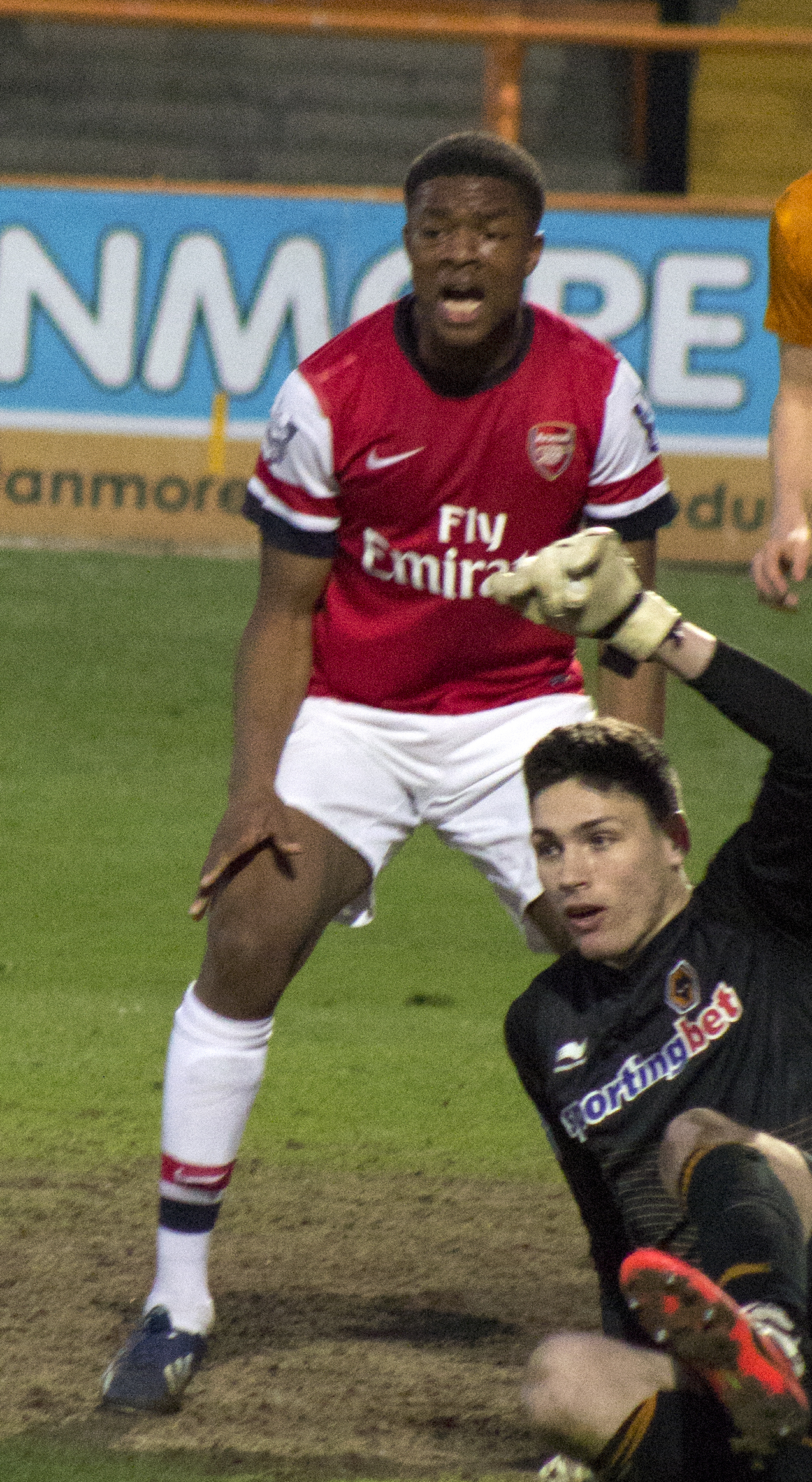 Chuba Akpom playing for Arsenal U-21 team.